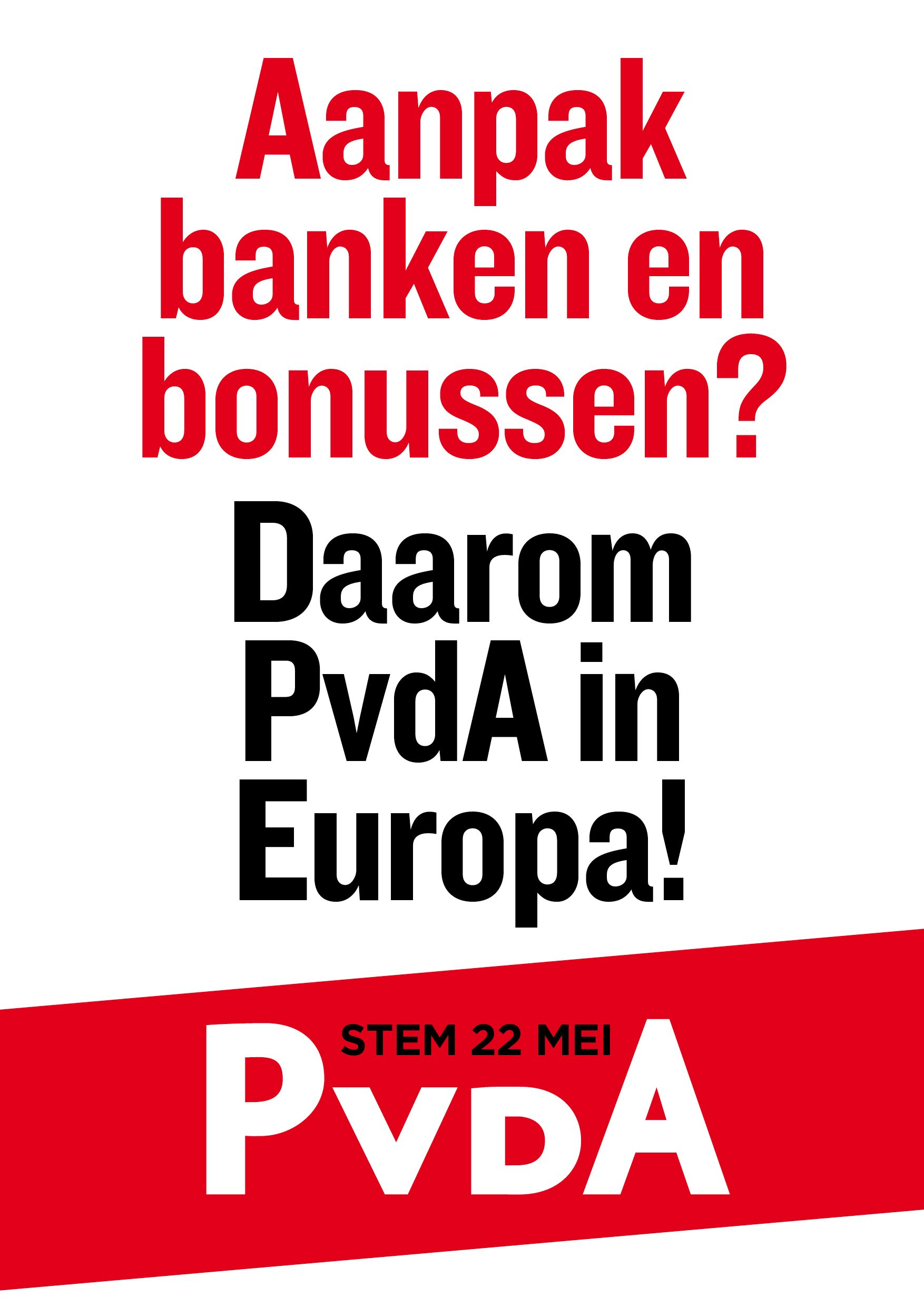 Poster voor de verkiezingen voor het Europees Parlement op 22 mei 2014.